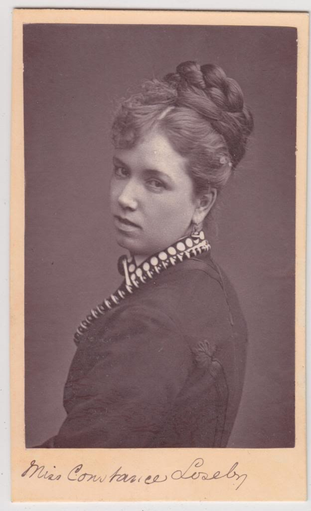 Carte de Visit of Constance Loseby (1846-1906) from 1875